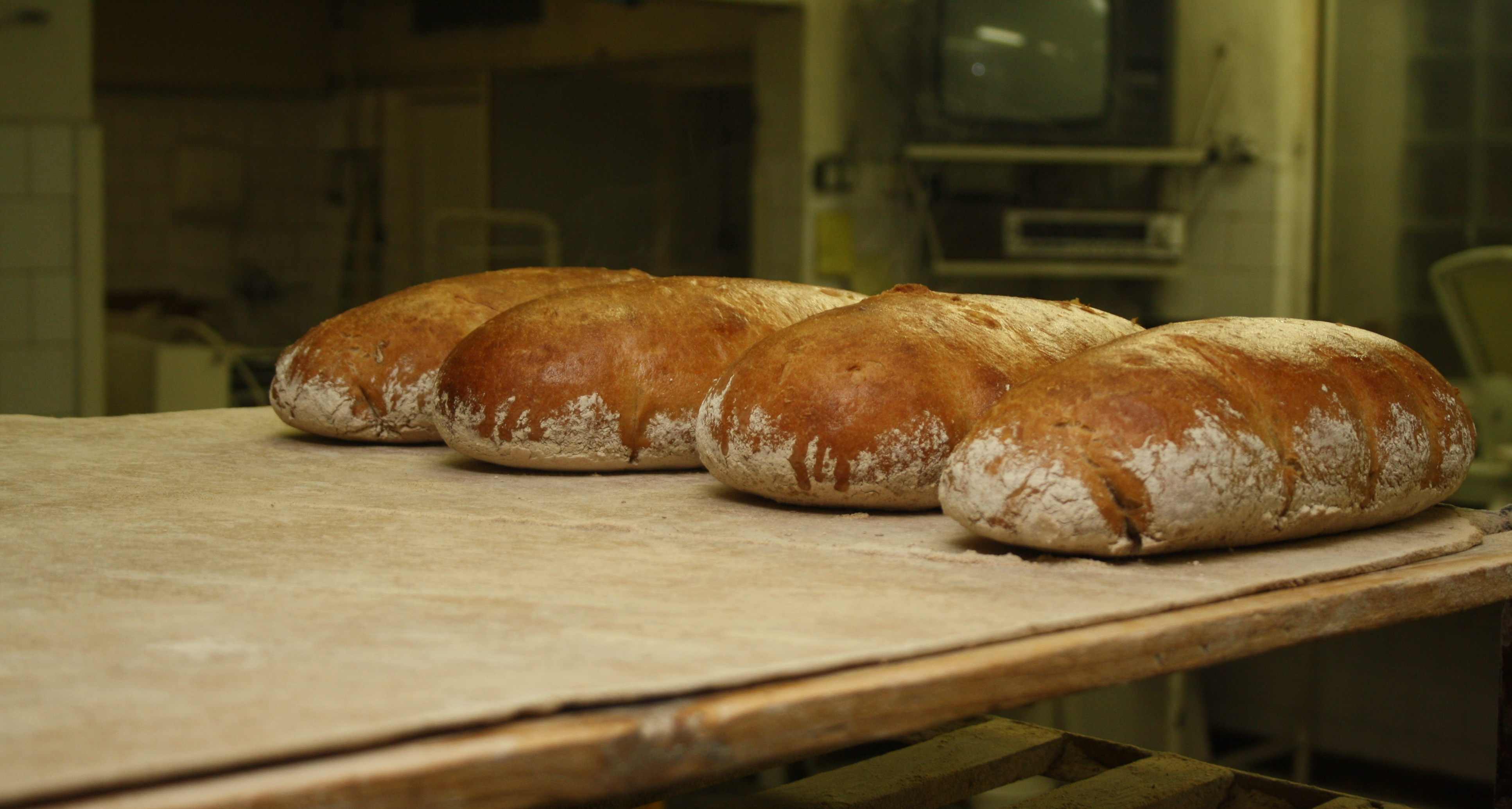 Production process of bread, Czech Republic This photograph was taken with DSLR from WMCZ's Camera grant This picture was taken and/or got within the scope of the 'Acquiring scientific and specialized pictures' grant.